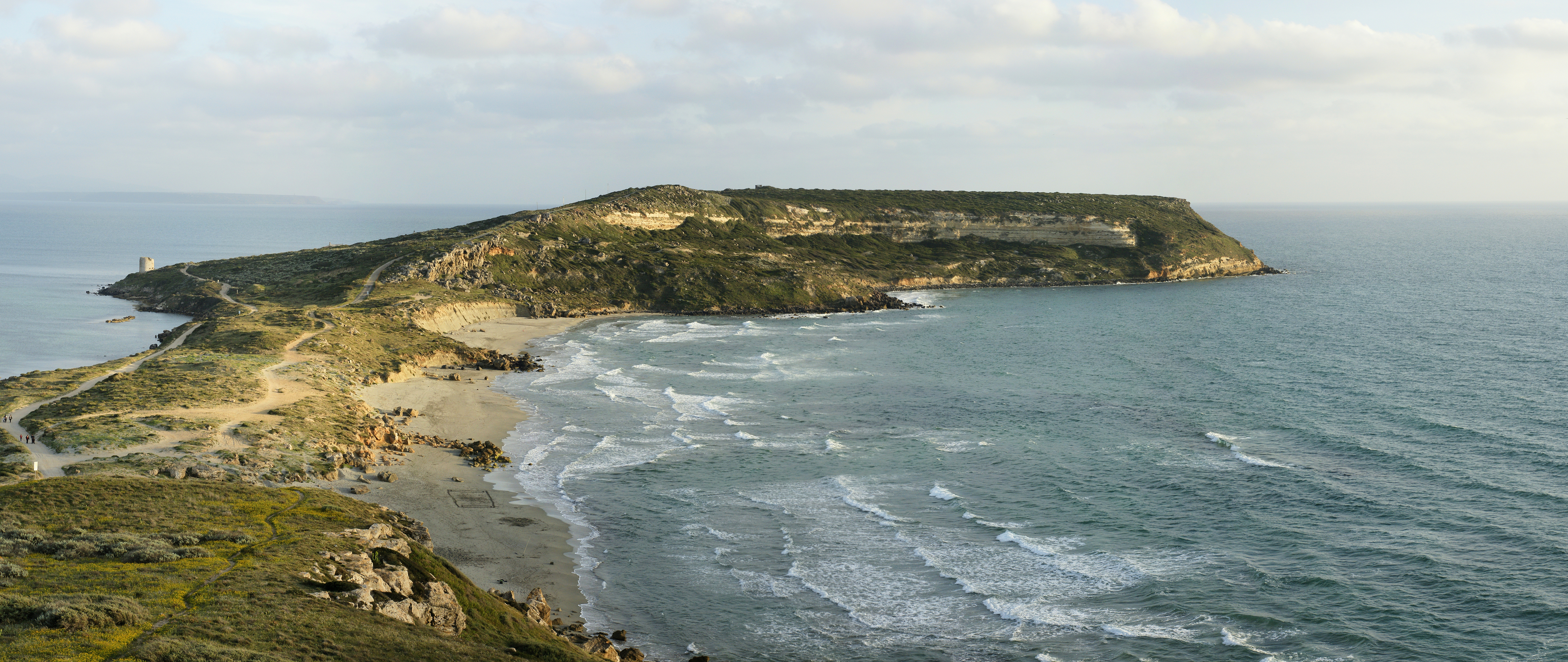 View of the Capo San Marco peninsula in Oristano province, Sardinia, Italy View in interactive viewer